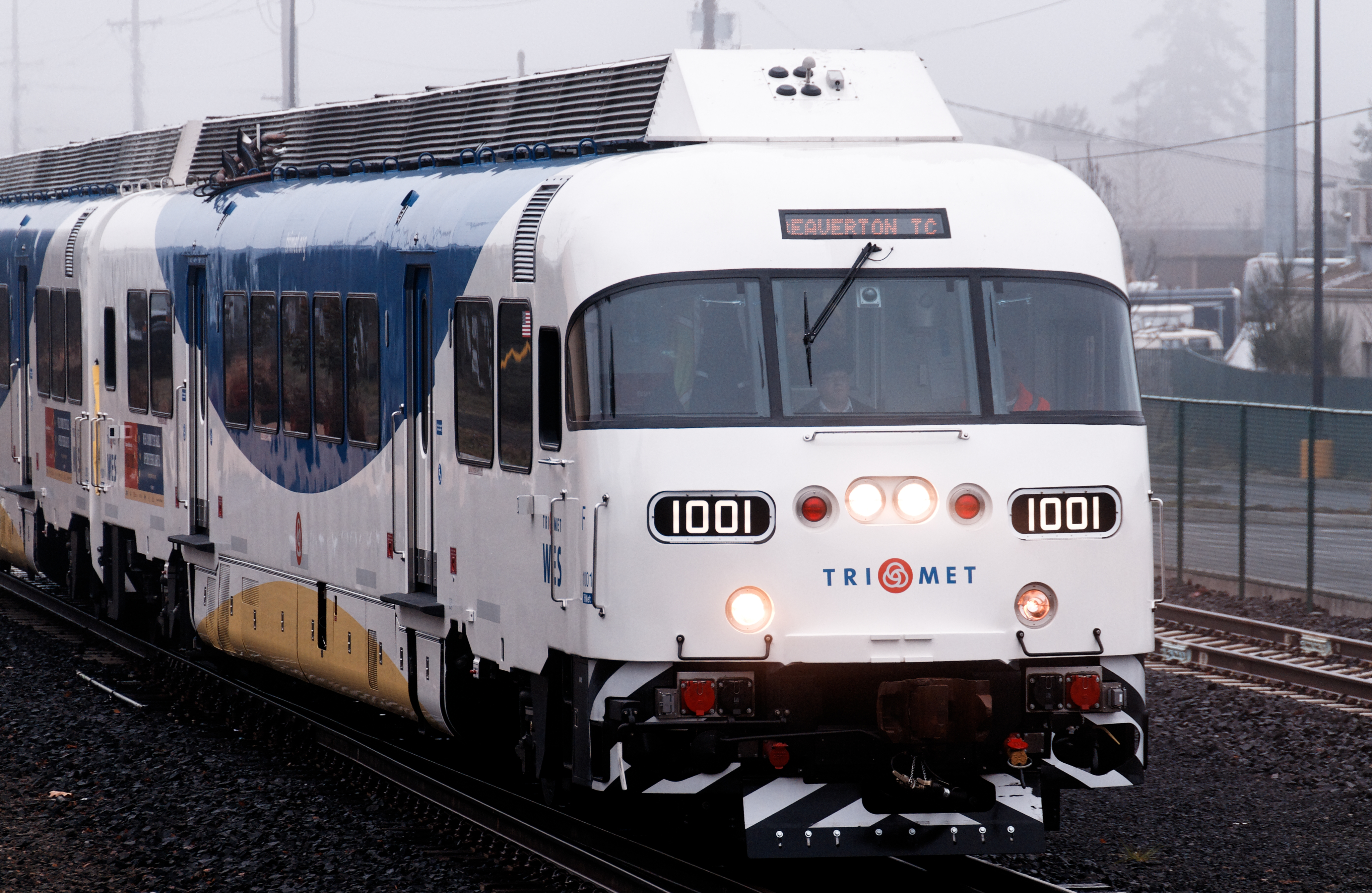 A two-car WES train bound for Beaverton Transit Center.